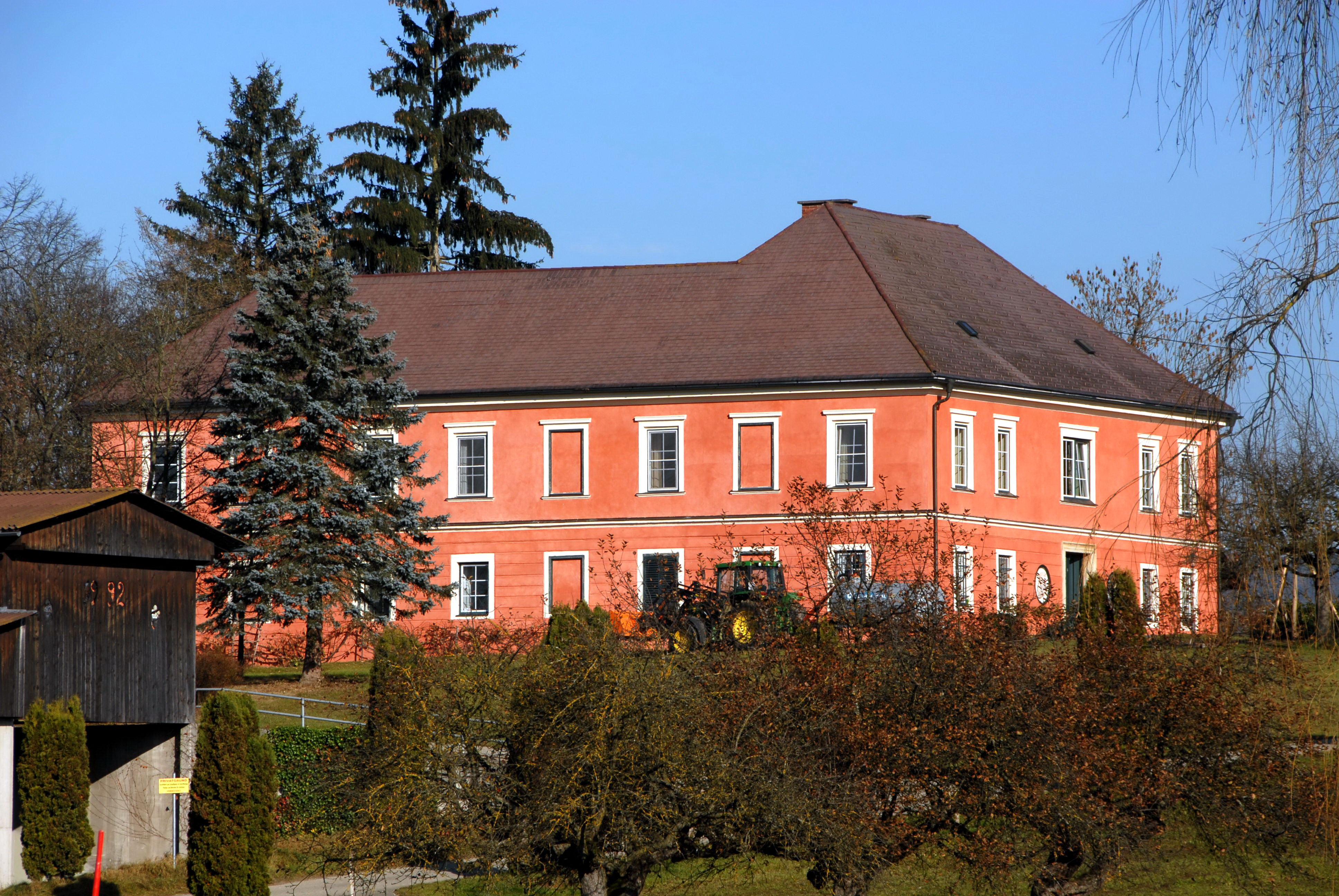 Castle Pakein at Pakein, municipality Grafenstein, district Klagenfurt Land, Carinthia, Austria